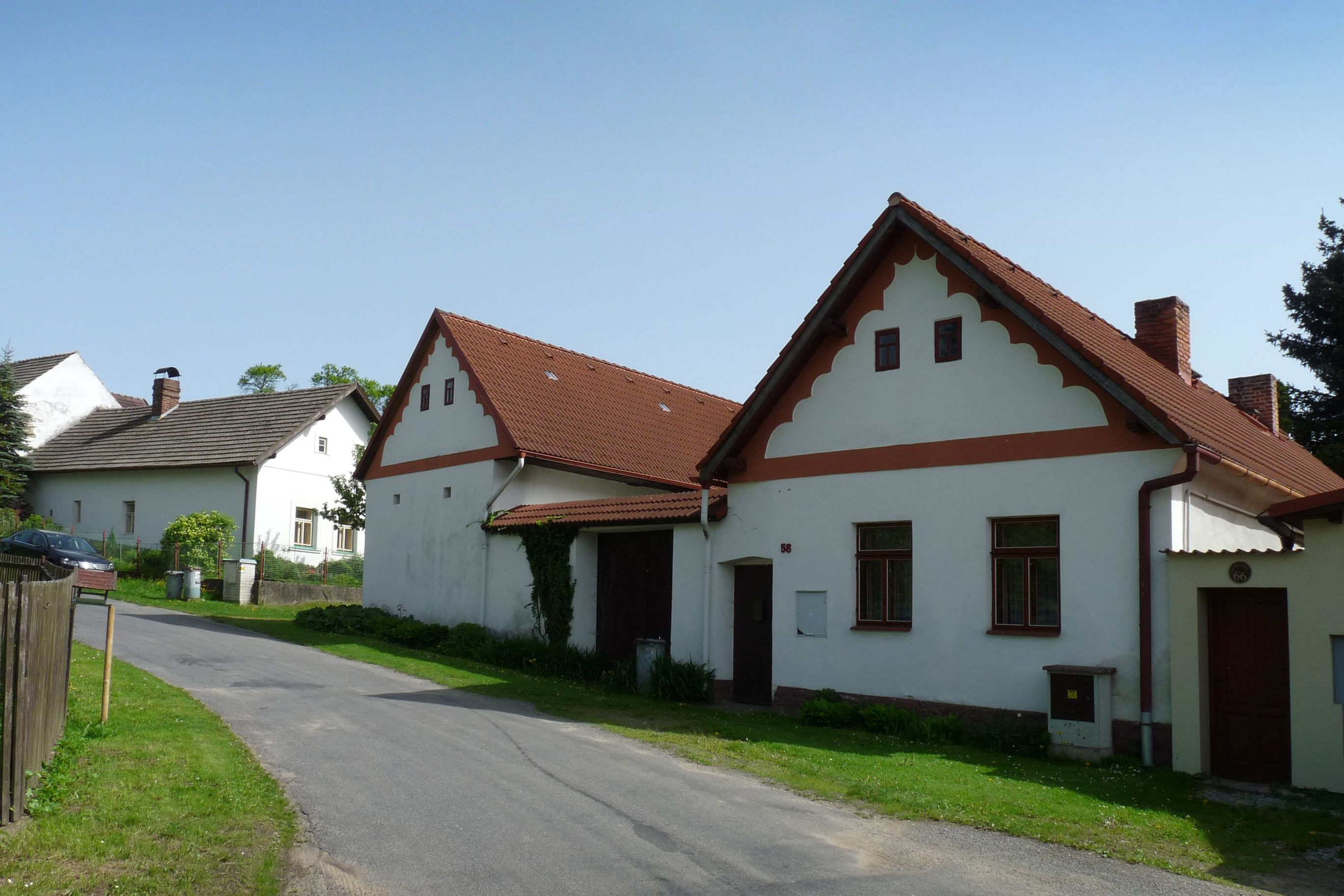 House No 58 in the village of Mnich, Pelhřimov District, Vysočina Region, Czech Republic.